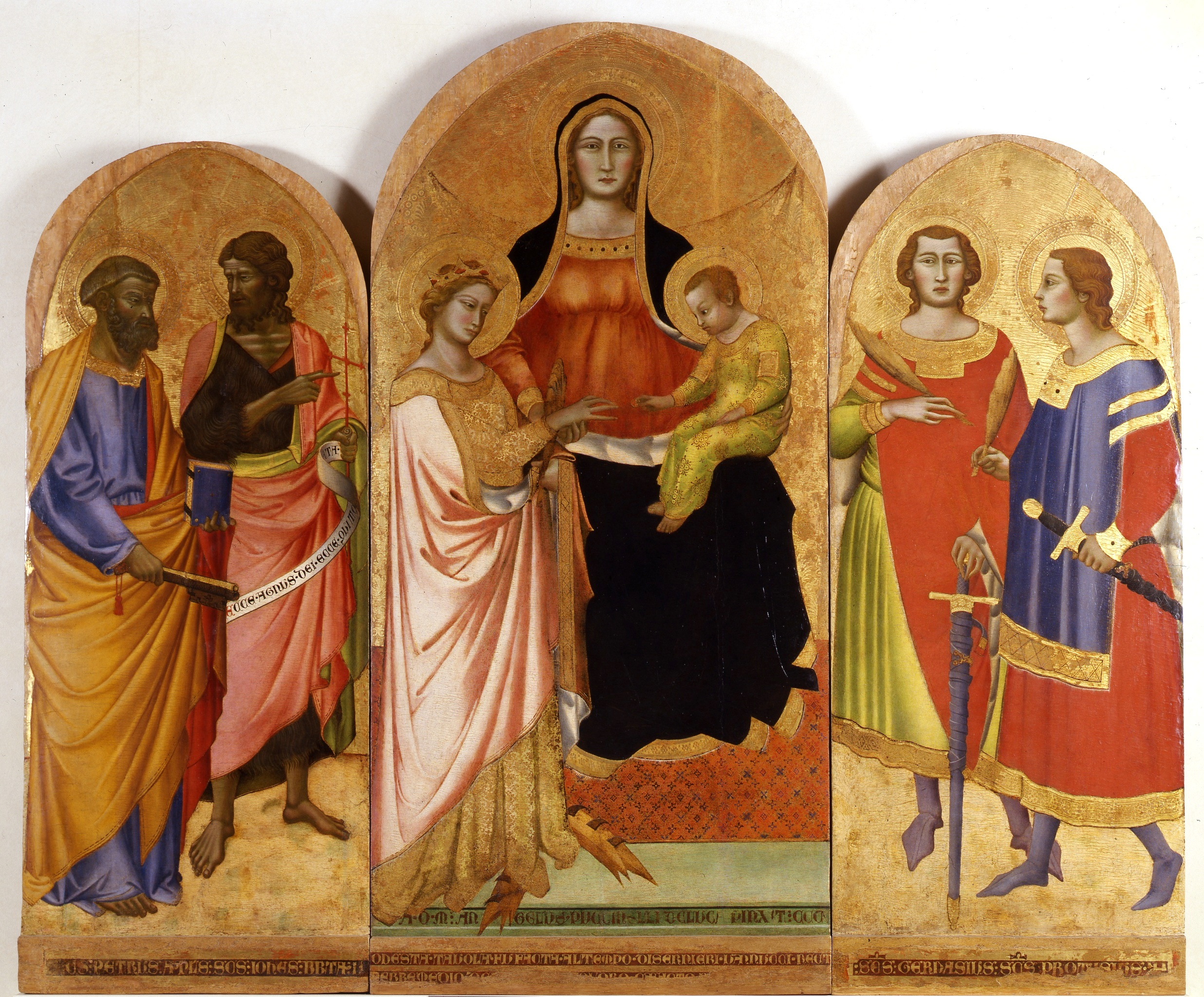 Angelo Puccinelli, Matrimonio Mistico di Santa Caterina d´Alessandria con Santi Pietro, Giovanni Battista, Gervasio e Protasio Villa Guinigi, Lucca.